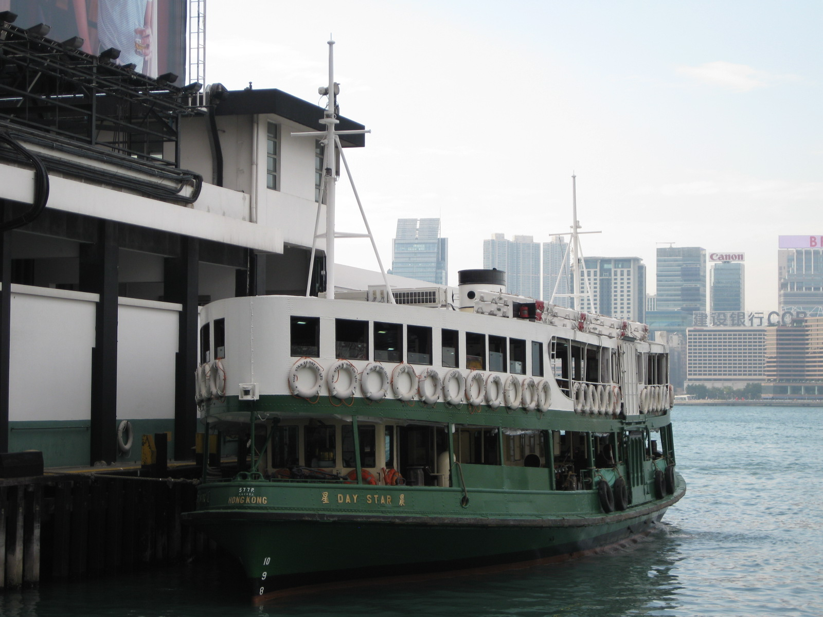 Hung Hom to Wan Chai Ferry last day